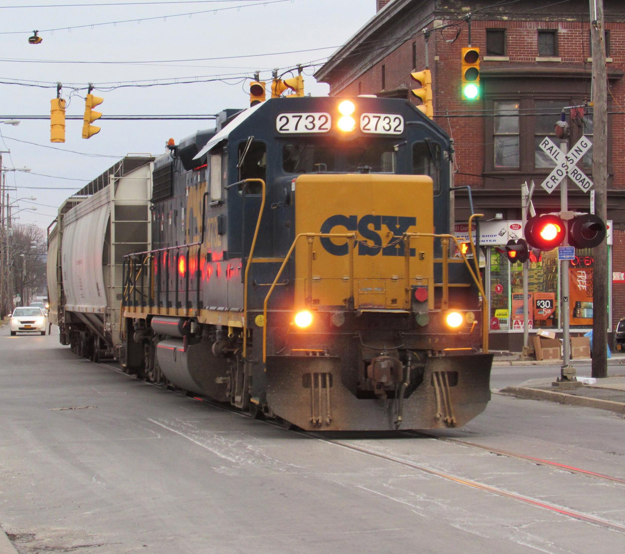 Train on Schulyer Street in Utica, New York, March 07, 2016